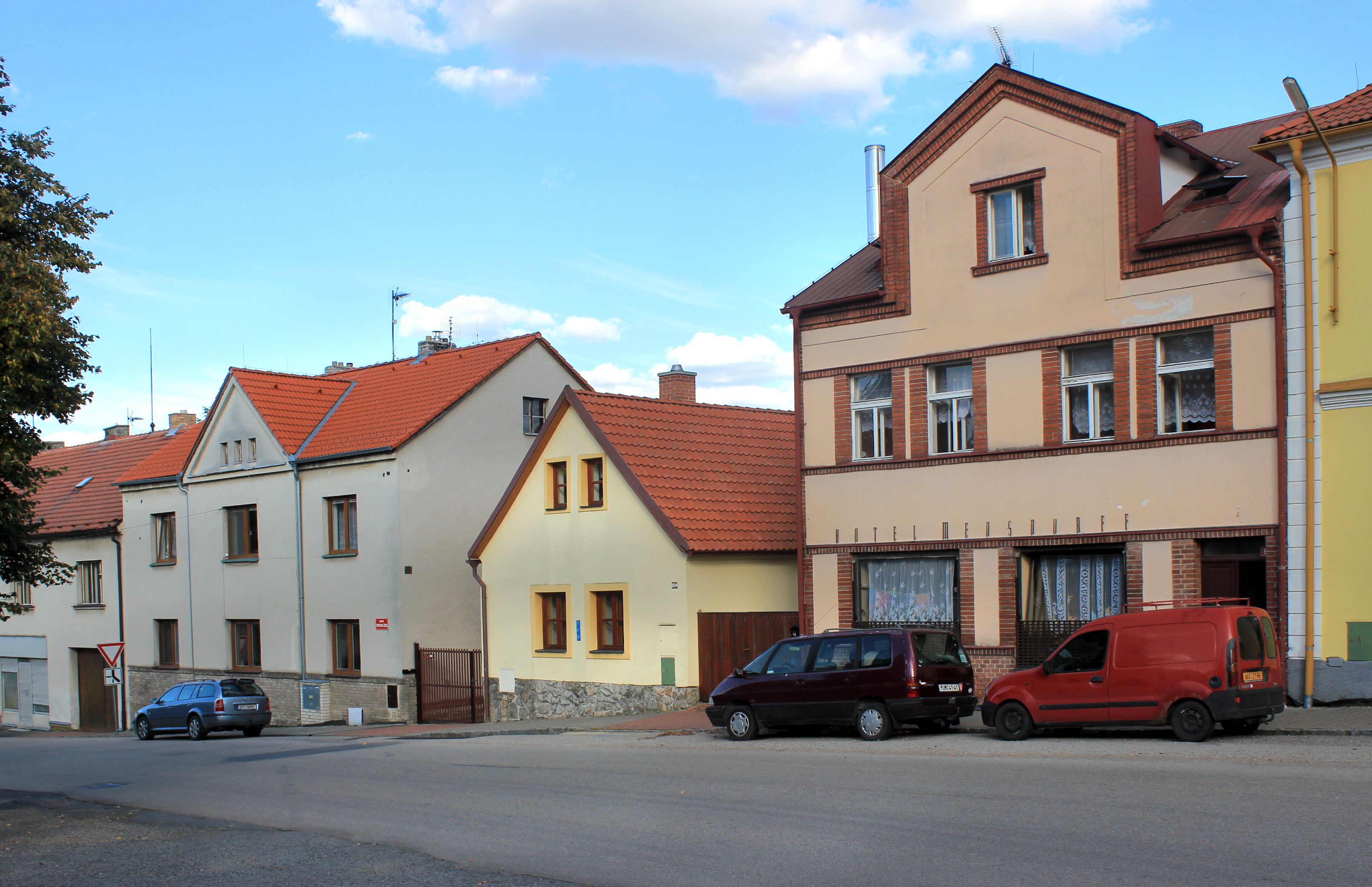 Svatopluka Čecha square in Postupice, Czech Republic.